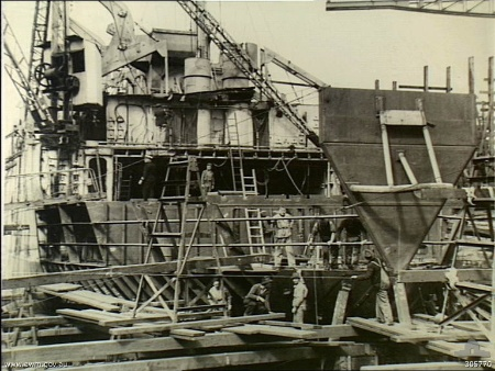 USS LST-469 under repair in Sydney after being torpedoed by Japanese submarine I-174 on 16 June 1943 off Smokey Cape, New South Wales